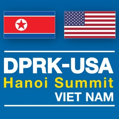 The official logo of the DPRK-USA Summit in Vietnam takes place from February 27-28, 2019 in Hanoi This Logo has been officially used in conference areas, news agencies and television stations (eg VTV, ....). The DPRK and USA national flags in the photo are also available on the Commons, see details in the "National flags in photos" section below.